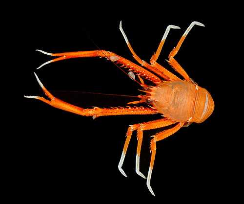 The squat lobster (Eumunida picta).